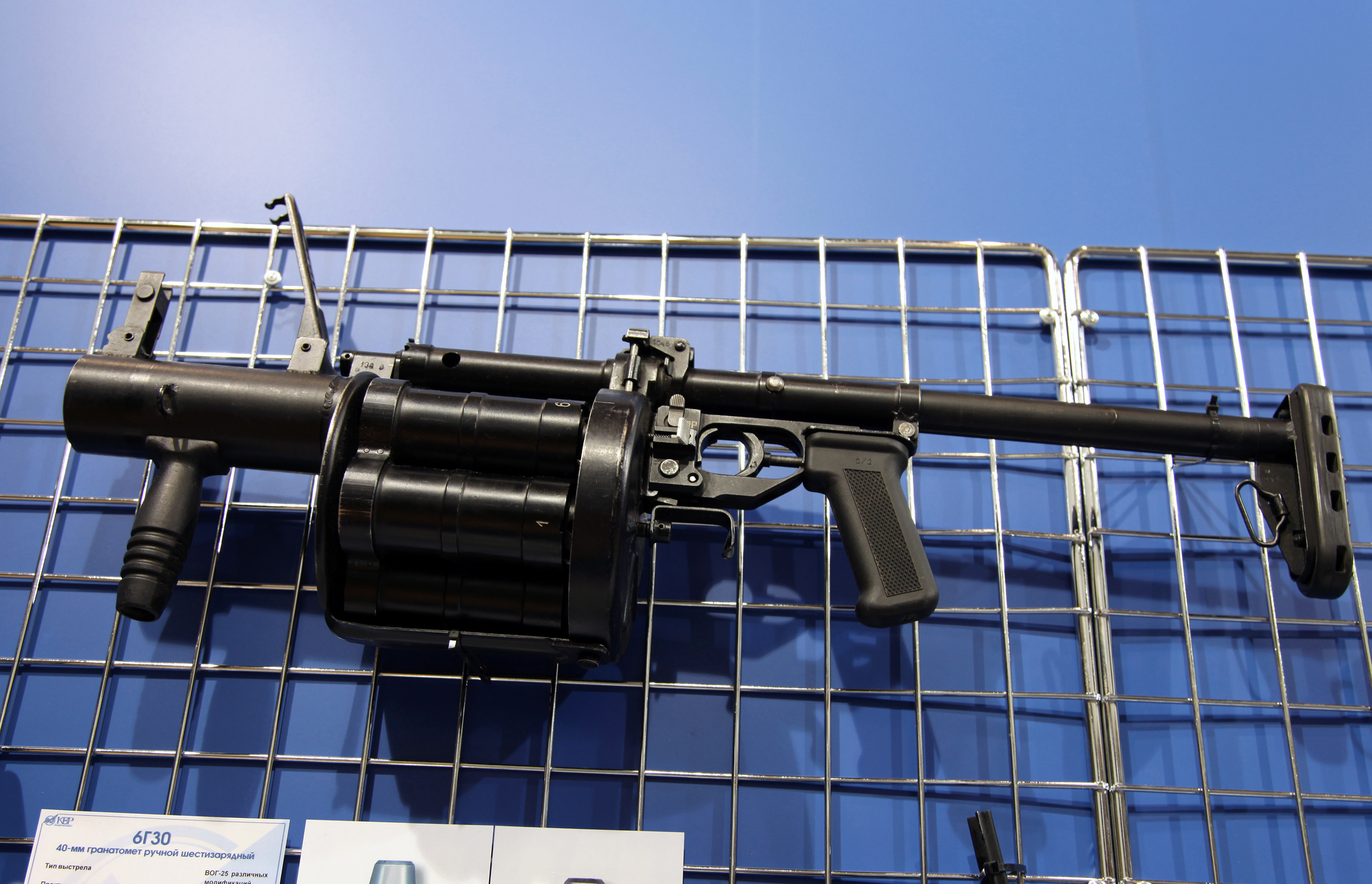 6G30 grenade launcher at Interpolitex-2012